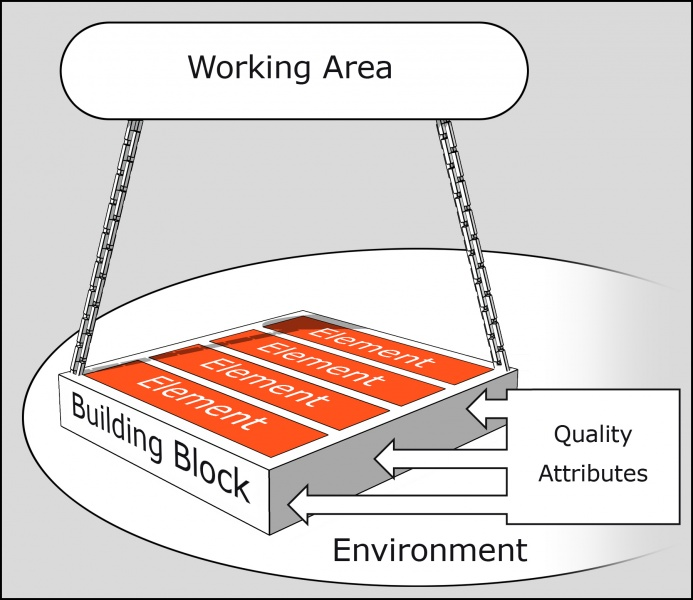 DYA Infrastructure Building Blocks Model structure